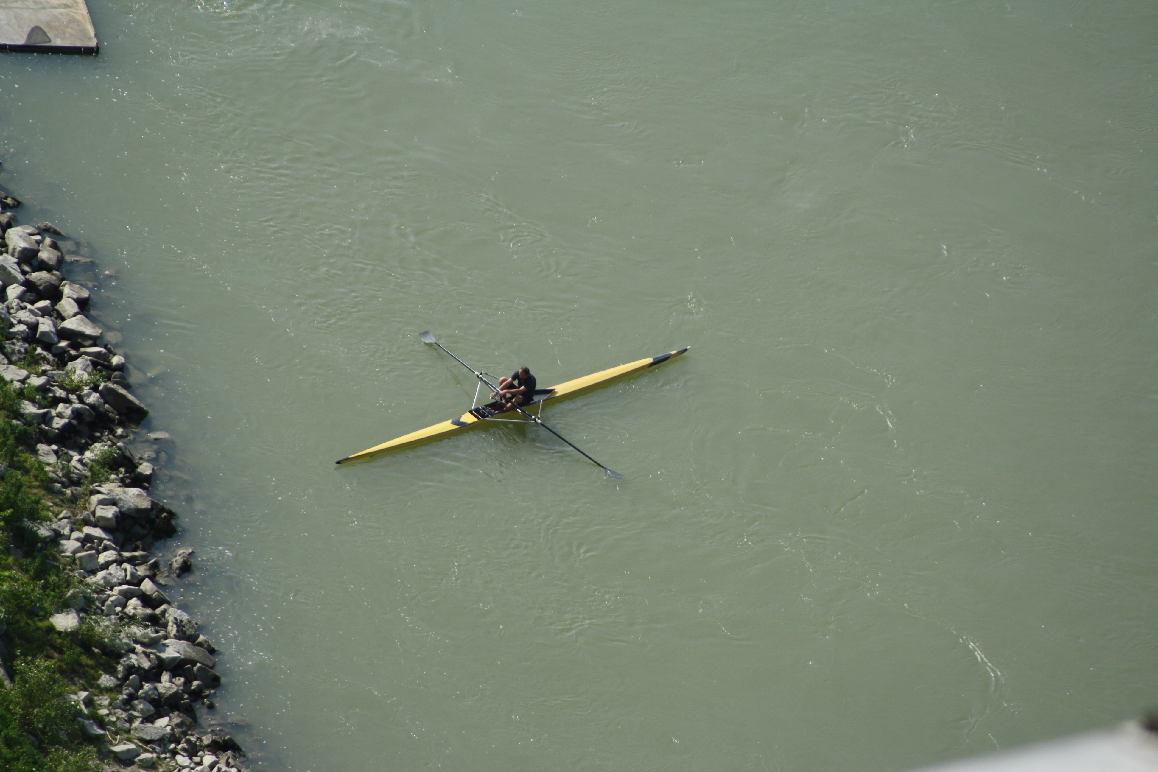 Rower at Danube River in Bratislava.